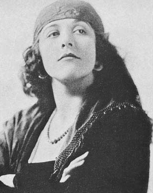 Publicity photo of Catherine Calvert from Who's Who on the Screen